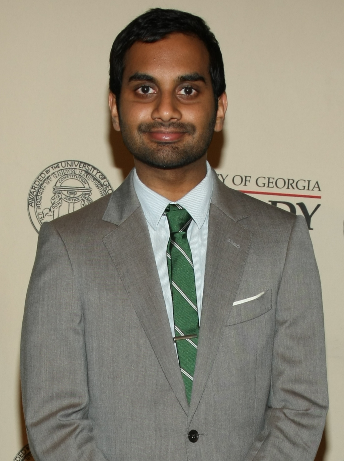 Aziz Ansari at the 71st Annual Peabody Awards Luncheon 2012.